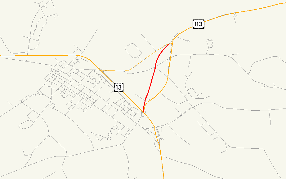 Map of Maryland 359